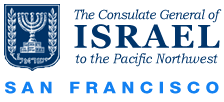 This is the logo of the consulate found on the consulate's website. It is the symbol of Israel, the name of the consulate, and the city where the consulate is located.